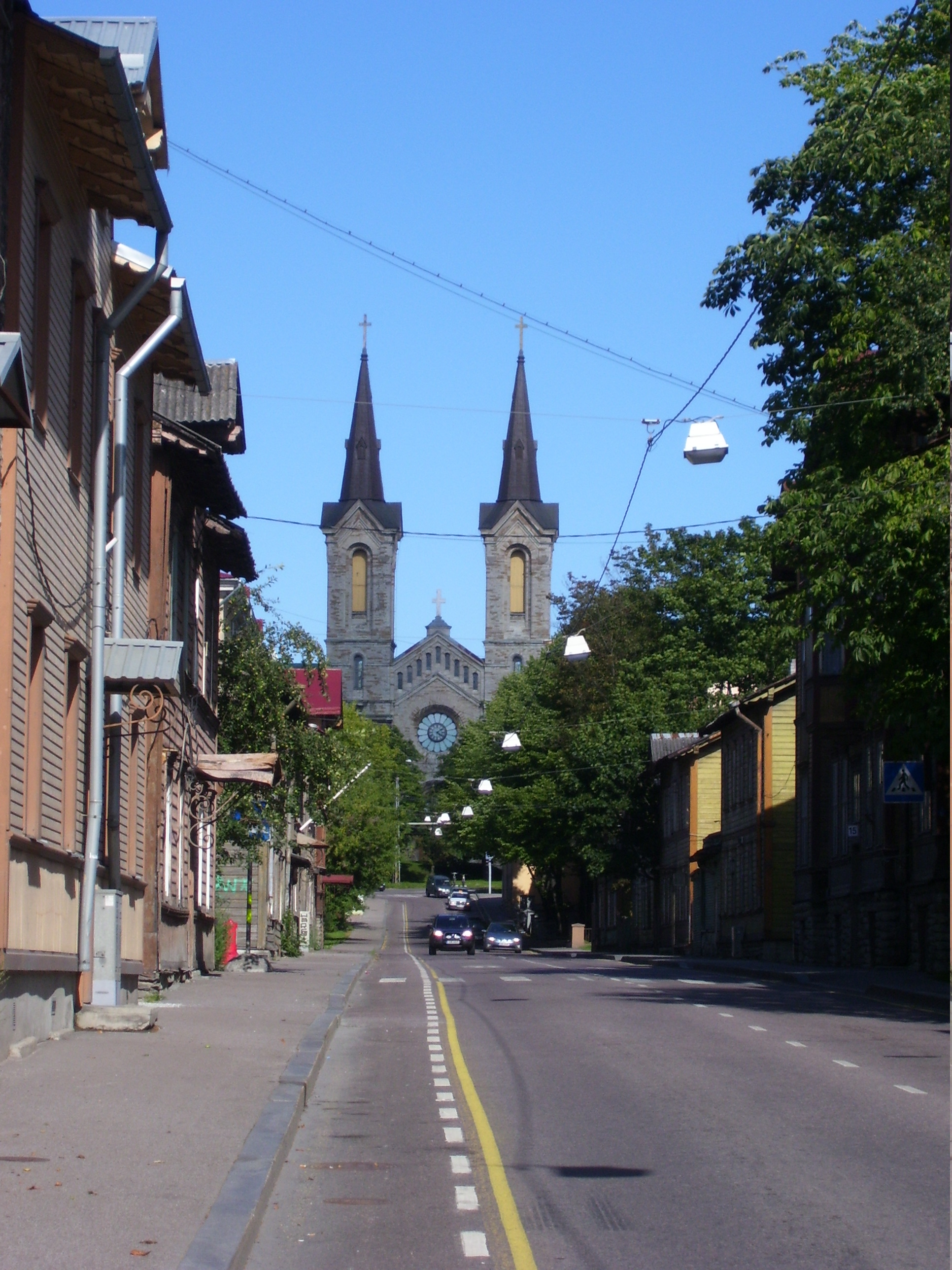 Tallinn, Estonia. View of St. Charles Church throug Luise street.